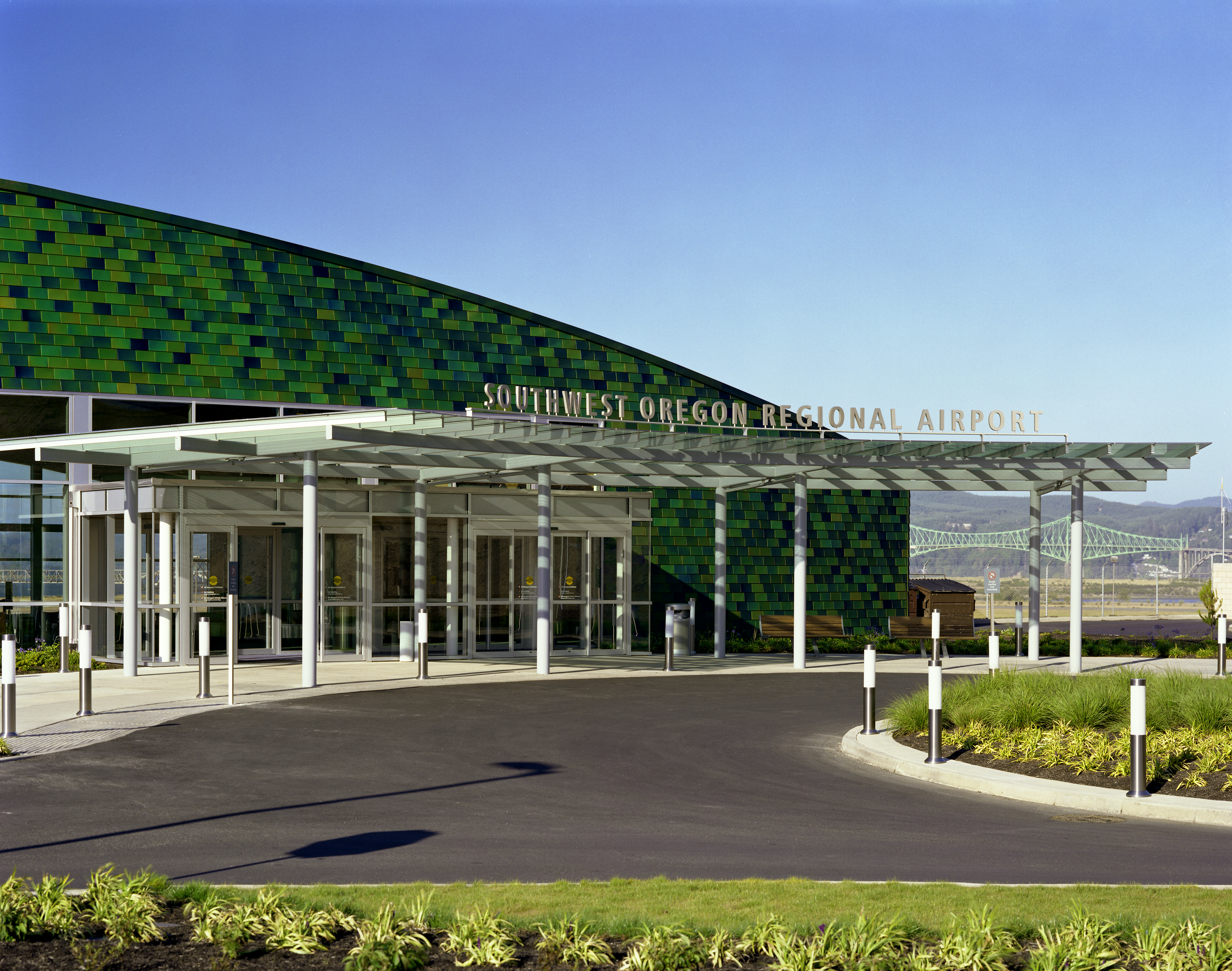 Southwest Oregon Regional Airport Terminal Entrance